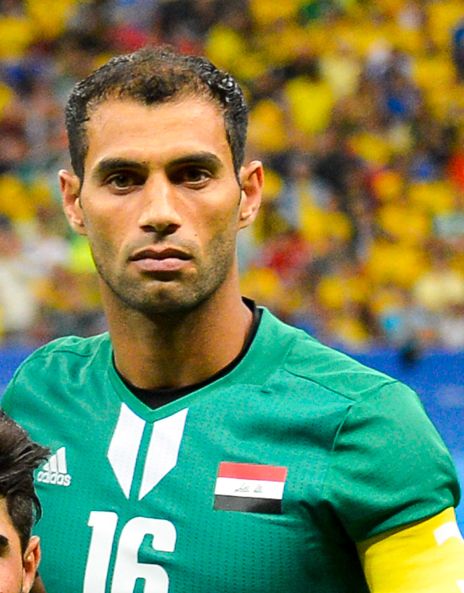 Brazil-Iraq 0:0